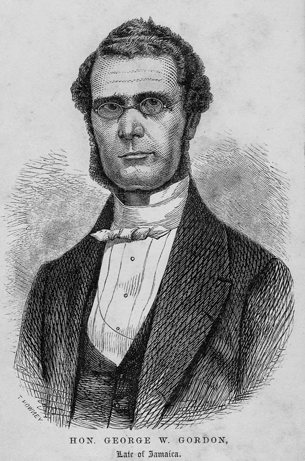 portrait of George Wiliam Gordon (1820-1865), c.1867.